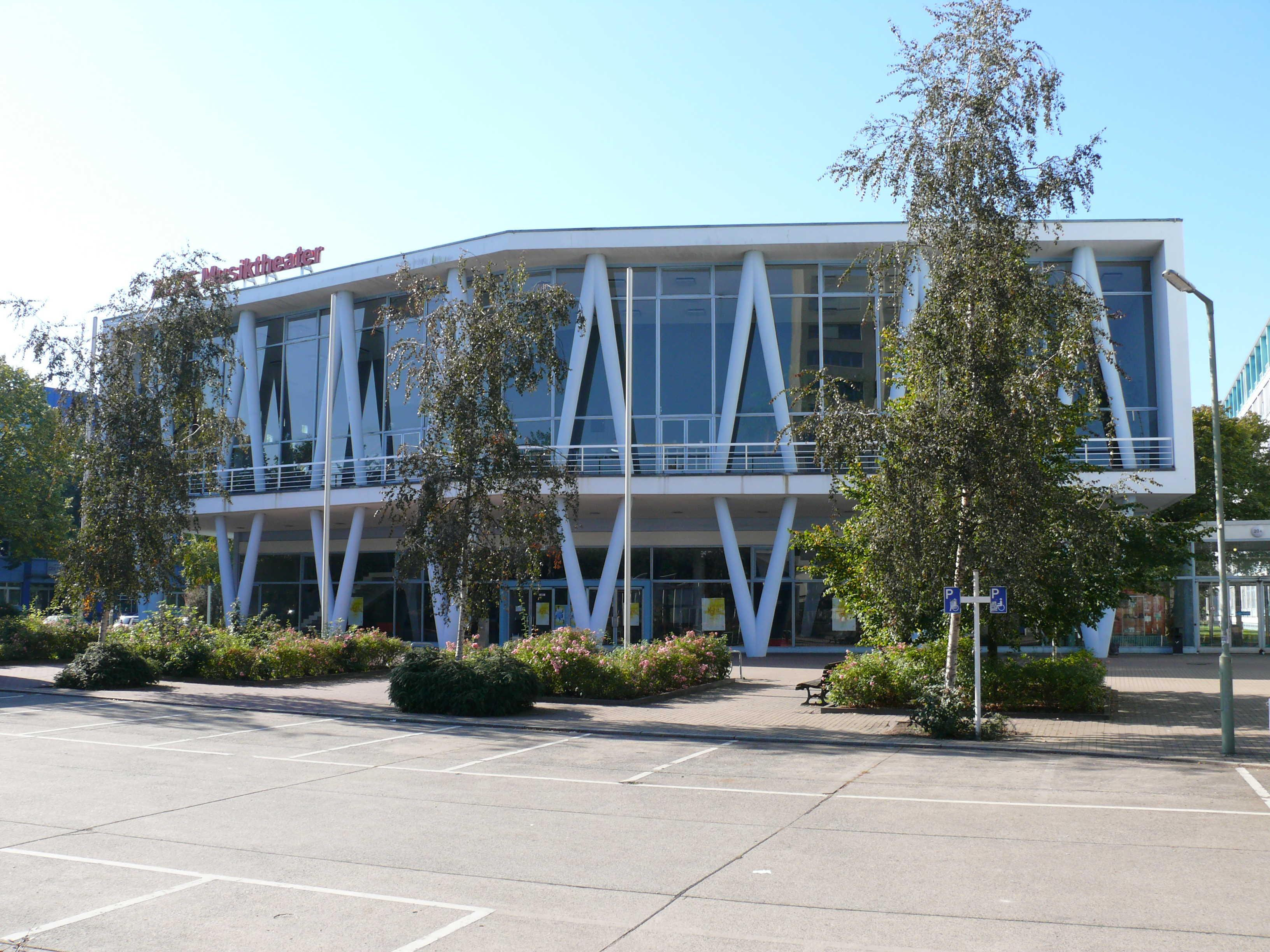 Berlin-Wedding Luxemburger Straße Beuth-Hochschule Haus-Gauß